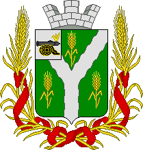 Coat of arms of Belyi (1859-1863)